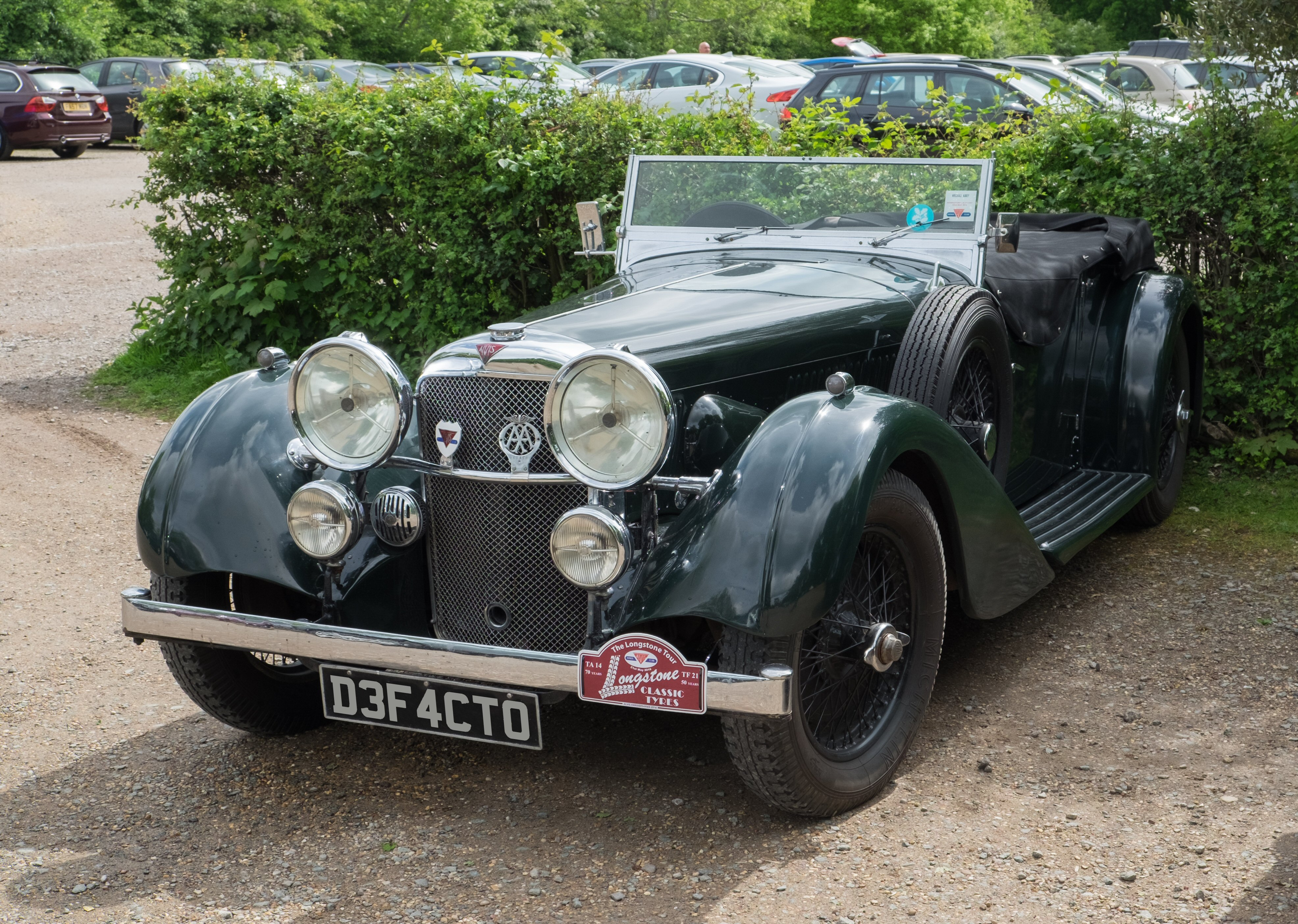 A 1935 Alvis Speed 20 SC